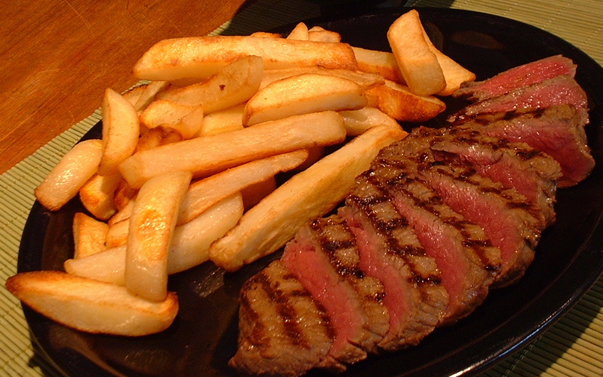 Steak and chips